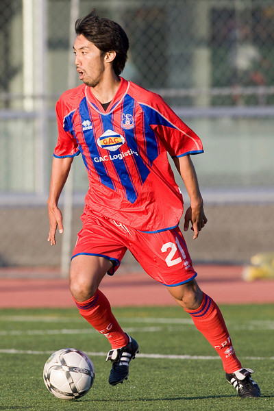 Japanese defender/midfielder, Shintaro Harada, playing for Crystal Palace FC USA in a soccer match at UMBC Stadium in Catonsville MD on May 10 2008 against the Wilmington Hammerheads in the United Soccer Leagues 2nd Division.